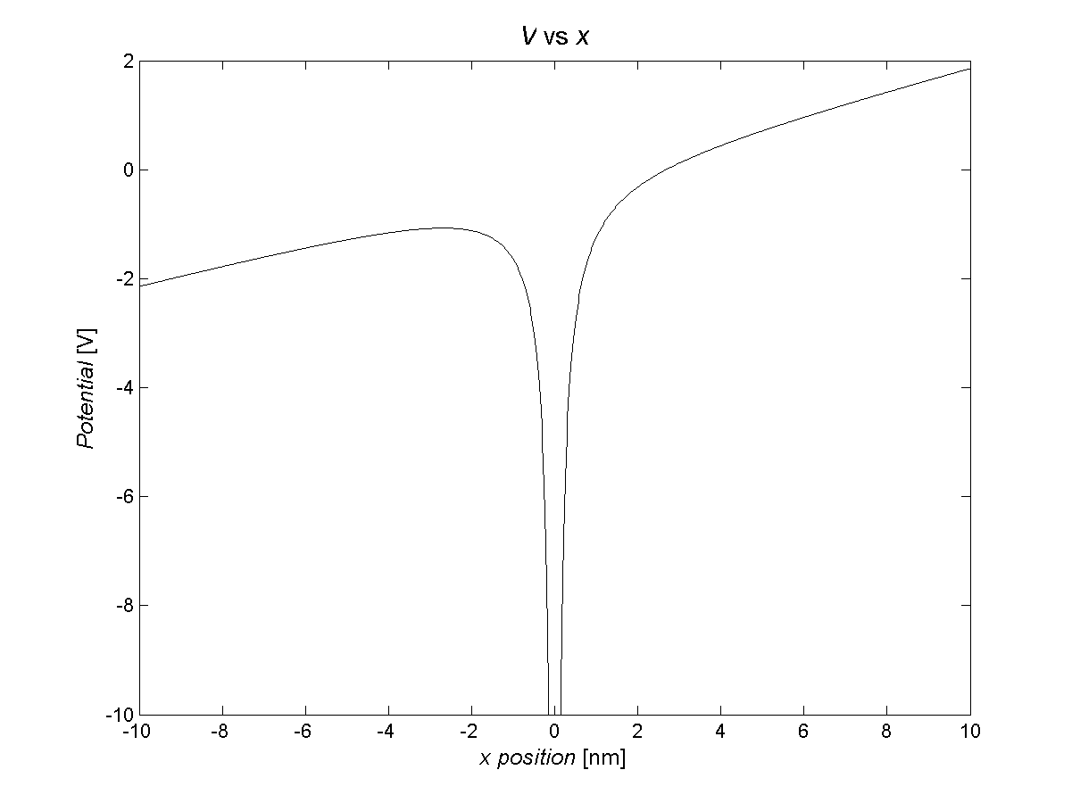 Combined potential of a hydrogenic atomic nucleus and a static electric field in the positive x-direction (Stark–Coulomb potential). Strength of the external field is grossly exaggerated.